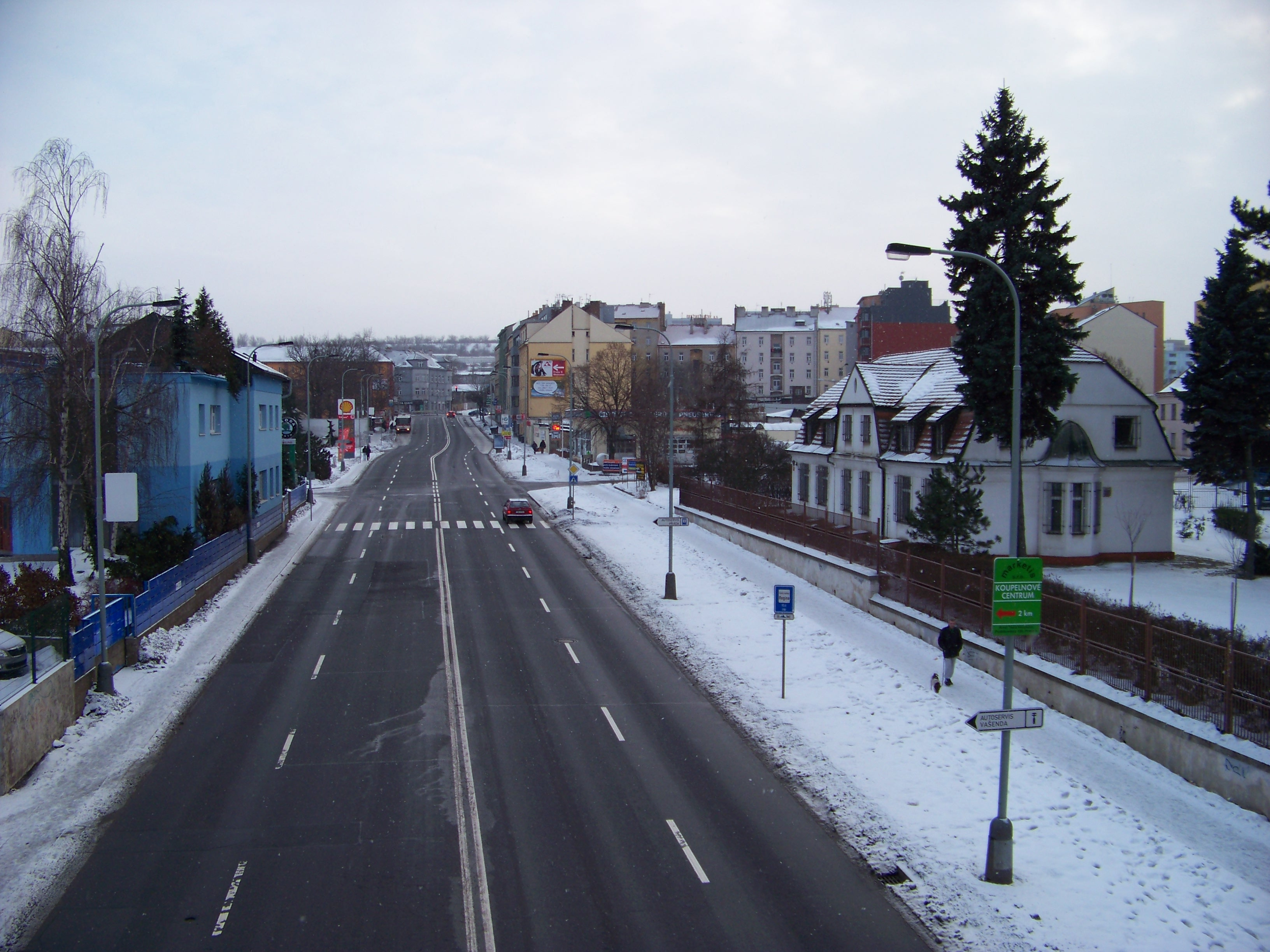 Prague-Vysočany, the Czech Republic. Freyova street.